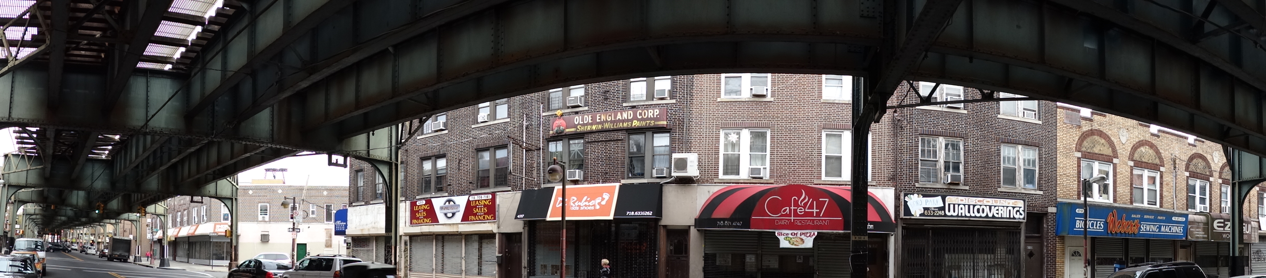 Panorama Underneath the Elevated Train - Borough Park - Hasidic District - Brooklyn - New York - USA